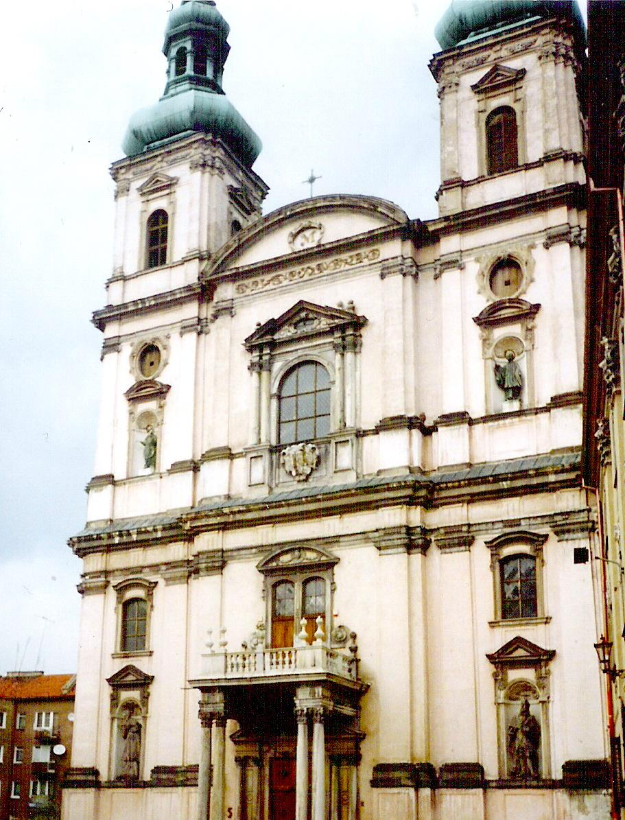 Church of the assumption of Holy Virgin Mary in Nysa (region of Śląsk in Poland)